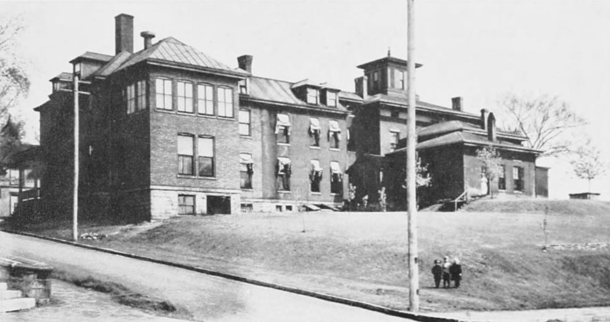 The original St. Luke's Hospital building in Davenport, Iowa. It was originally the home of Daniel Newcomb and was used by the hospital from April 1885 to December 1919.